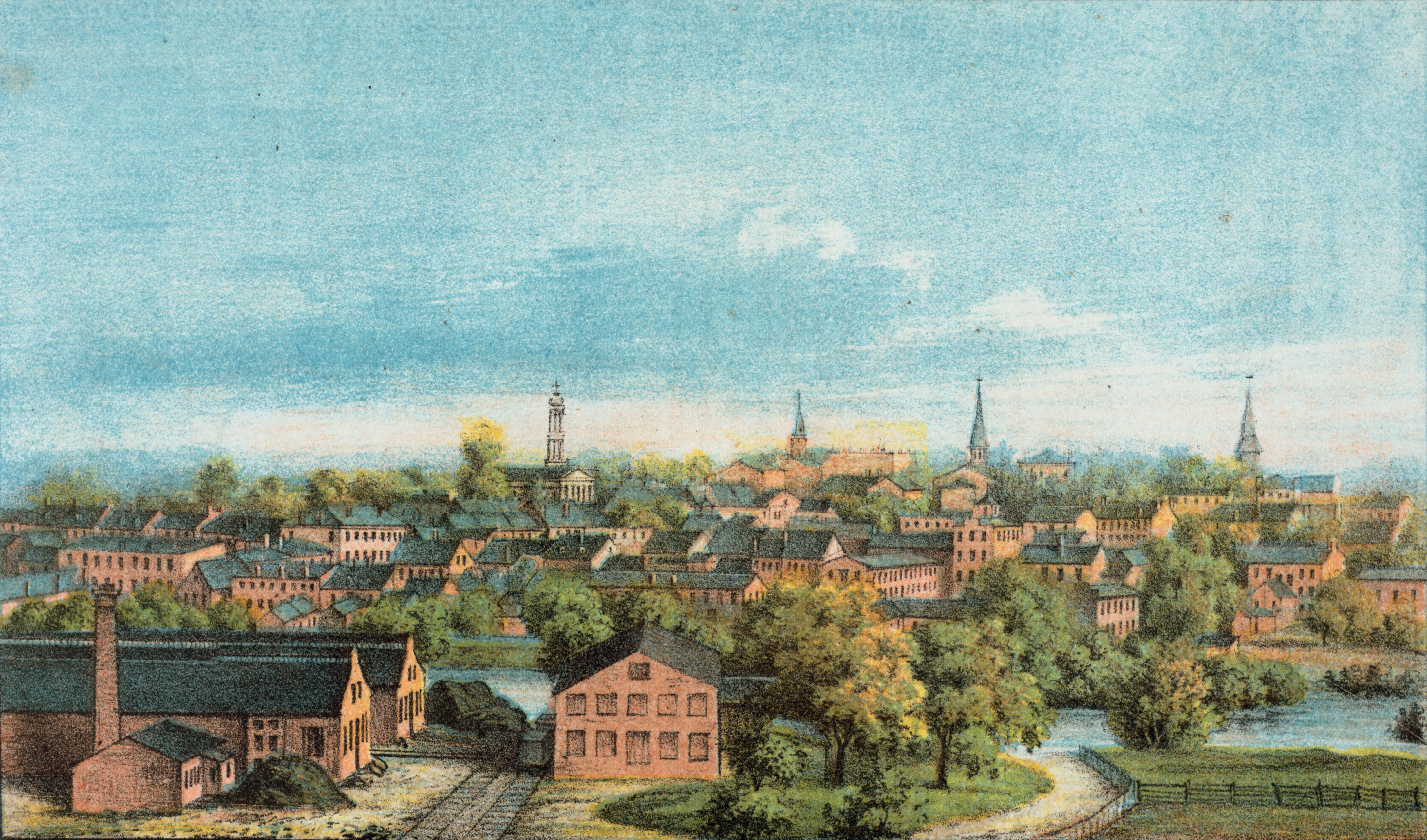 EM14834